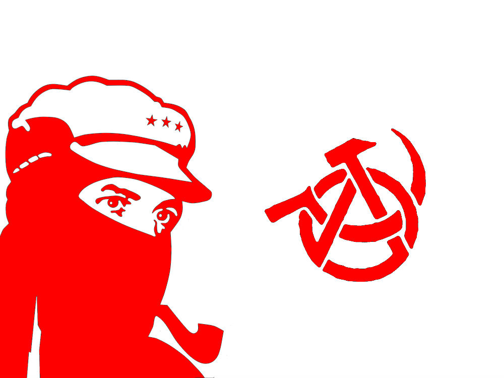 A graphic of Marcos and the Anarcho-Communism symbol.